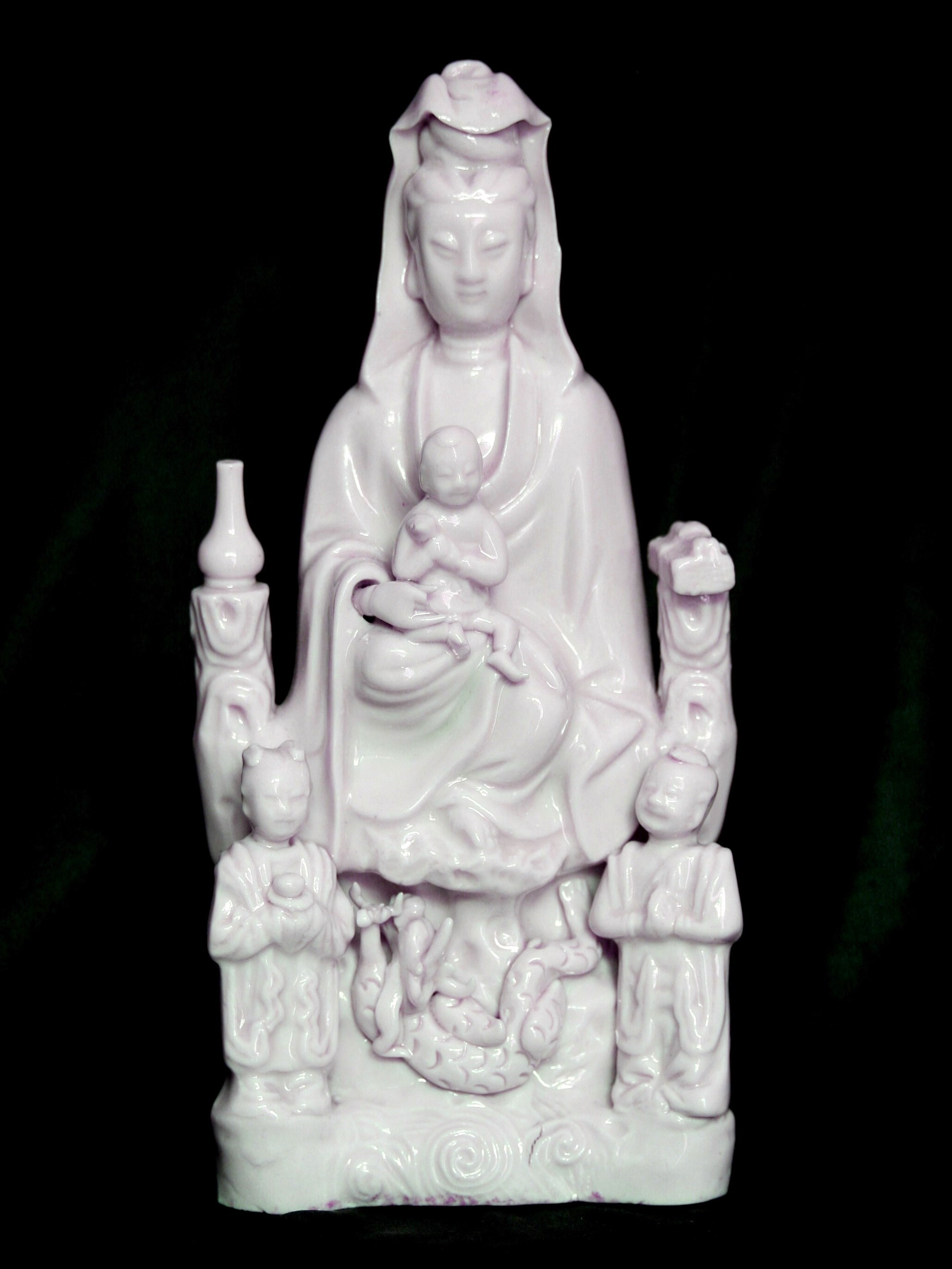 Maria Kannon, Dehua kiln statue of Buddhist Kannon used for Christian veneration in Japan, Nantoyōsō Collection, Japan